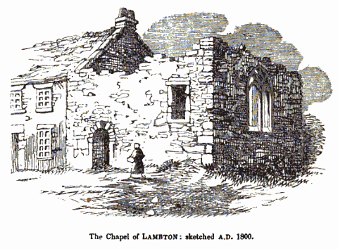 The Ruins of Lambton Chapel, 1800